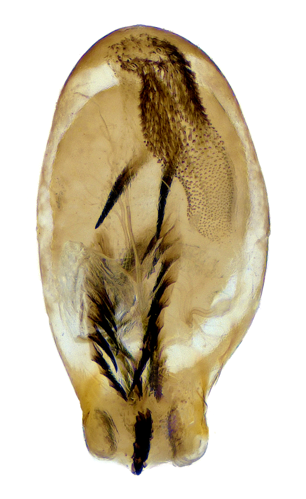 Family: Staphylinidae Description: Aedoeagus, 1,04 mm Photo: U.Schmidt, 2017